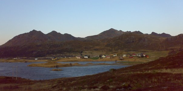 Holdal in Lofoten, Norway